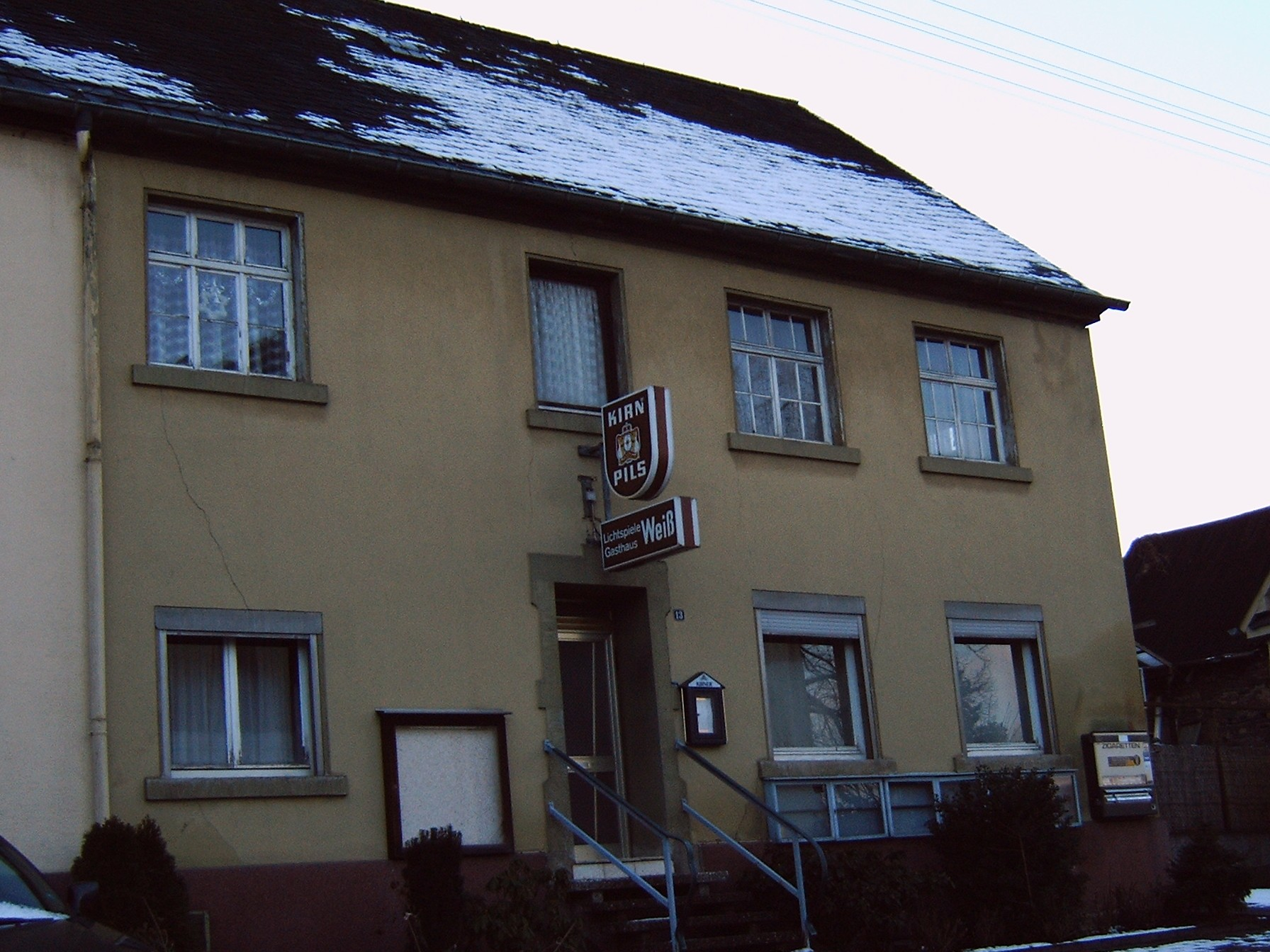 Description: Pub and former cinema "Gasthaus Weiss" Source: Alexander Dreyer Site views of Niederwörresbach, Germany, Photographed by myself, dec. 2005